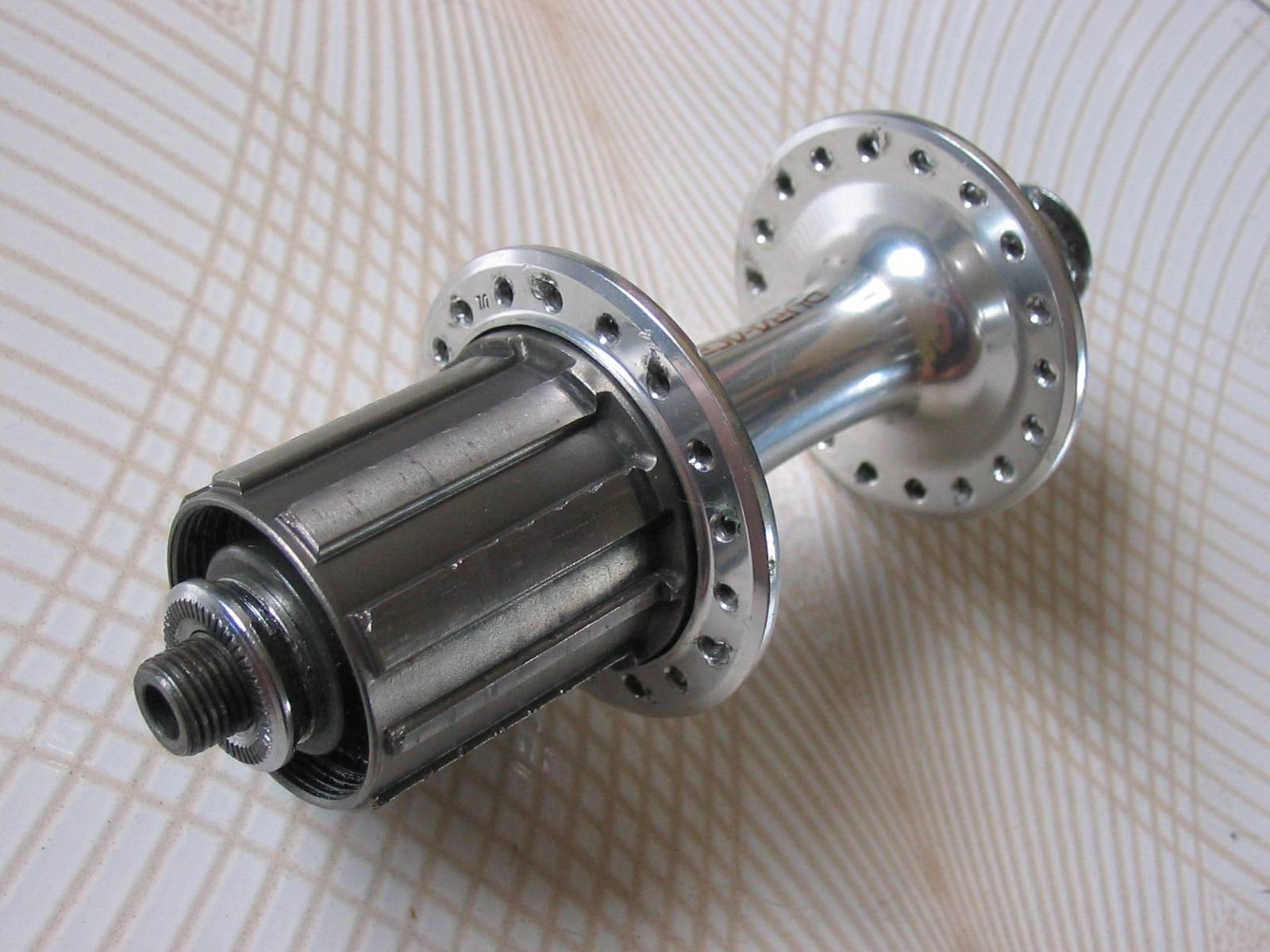 Shimano Dura-Ace freehub